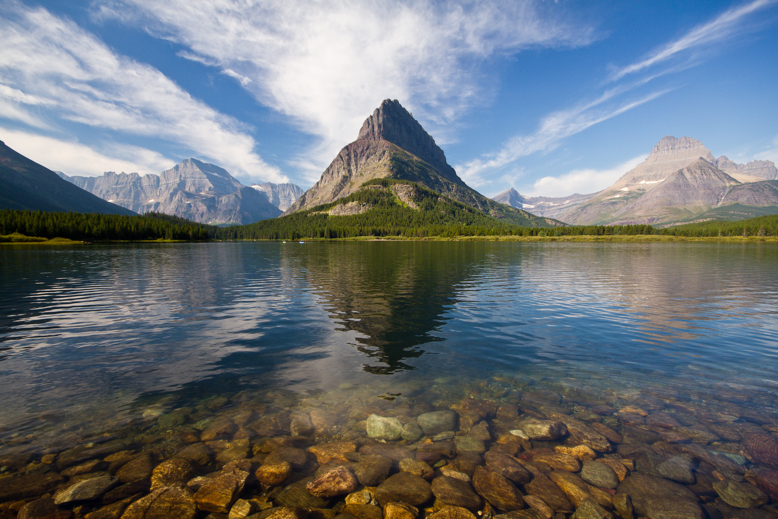 Grinnell Point and Swiftcurrent Lake from the Many Glacier Hotel in Glacier National Park, MT. September 2013.